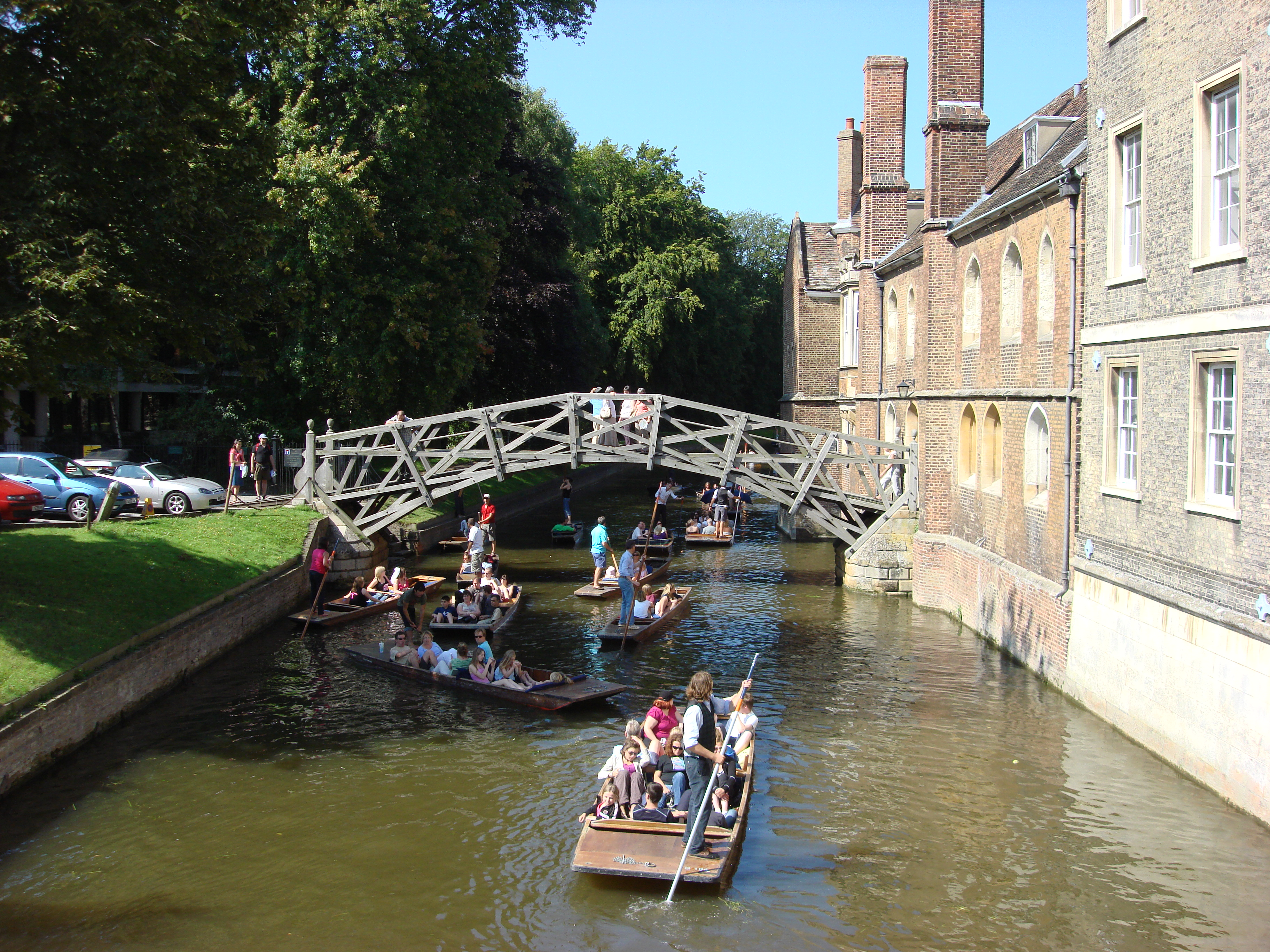 Mathematical bridge, Cambridge, UK